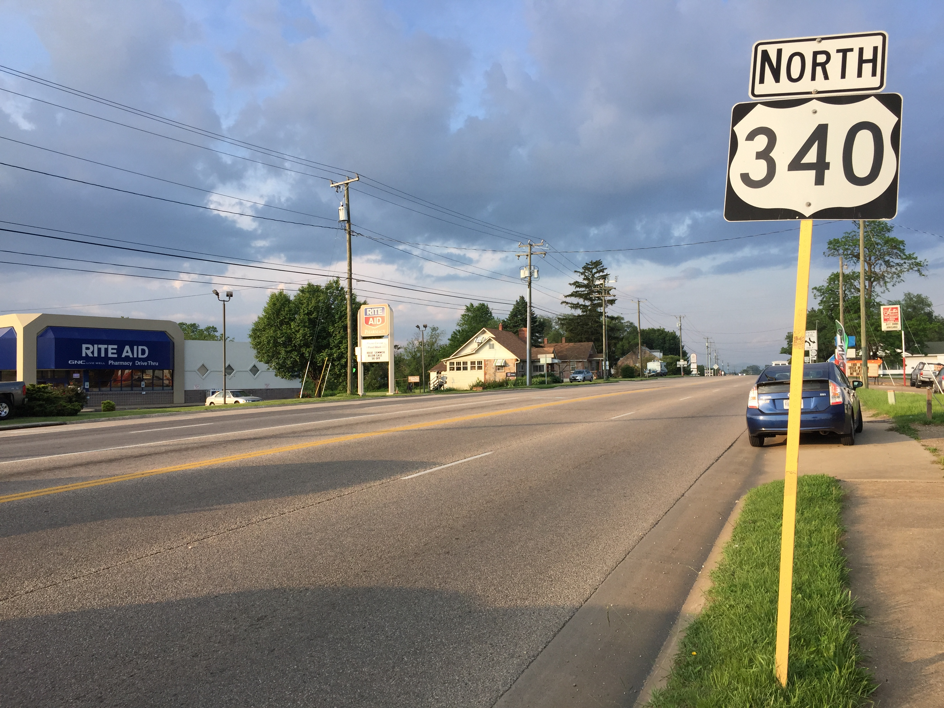 View north along U.S. Route 340 (Stuarts Draft Highway) just north of the junction with Virginia State Secondary Route 608 (Draft Avenue) in Stuarts Draft, Augusta County, Virginia